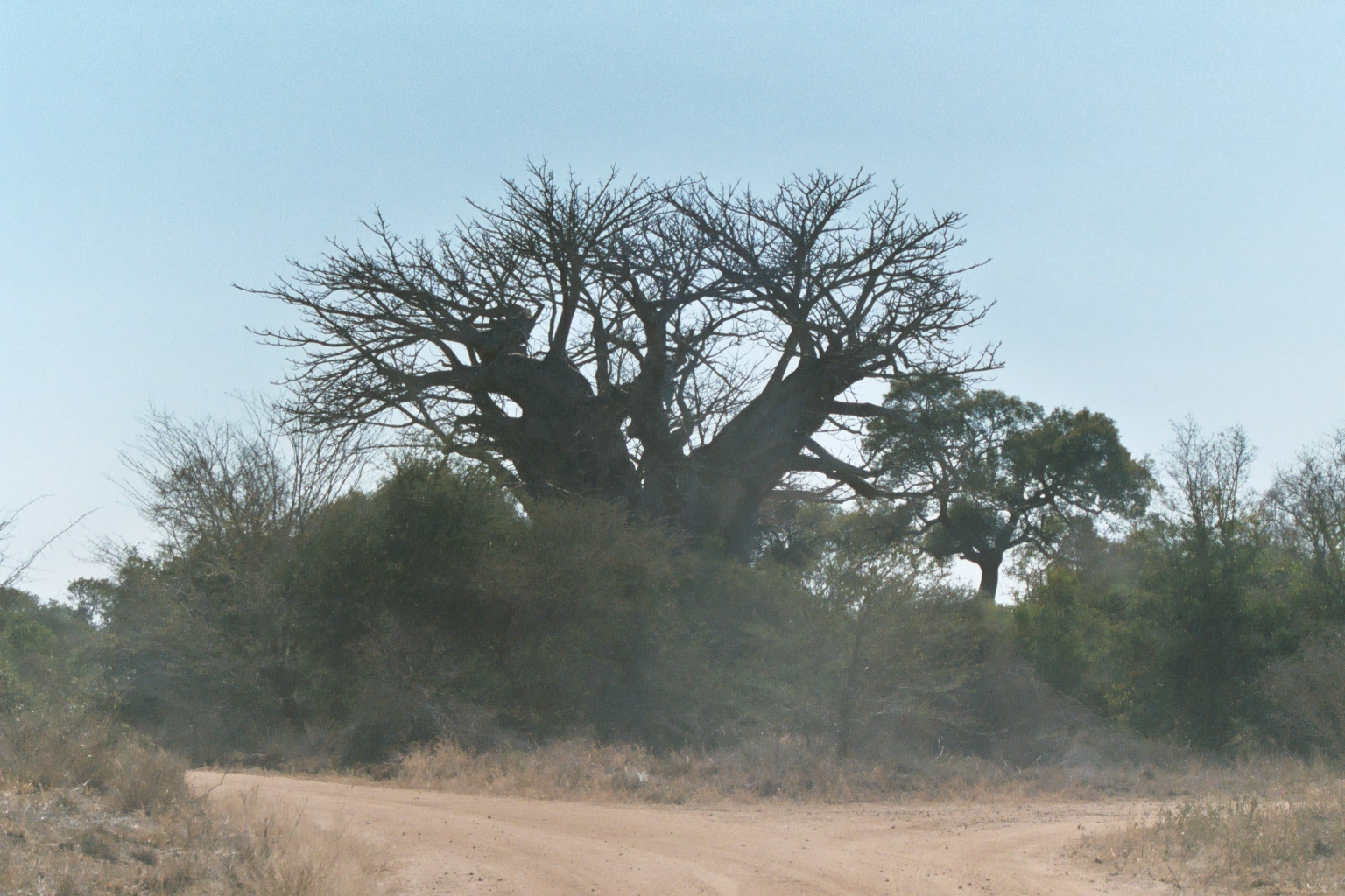 Baobab, Kruger Park, South Africa, August 2003.